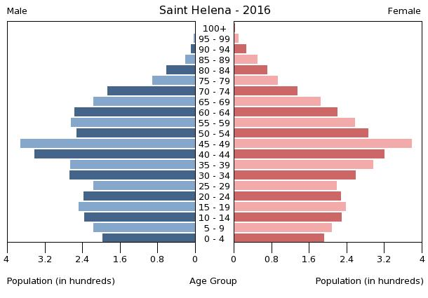 The population pyramid of Saint Helena illustrates the age and sex structure of population and may provide insights about political and social stability, as well as economic development. The population is distributed along the horizontal axis, with males shown on the left and females on the right. The male and female populations are broken down into 5-year age groups represented as horizontal bars along the vertical axis, with the youngest age groups at the bottom and the oldest at the top. The shape of the population pyramid gradually evolves over time based on fertility, mortality, and international migration trends.